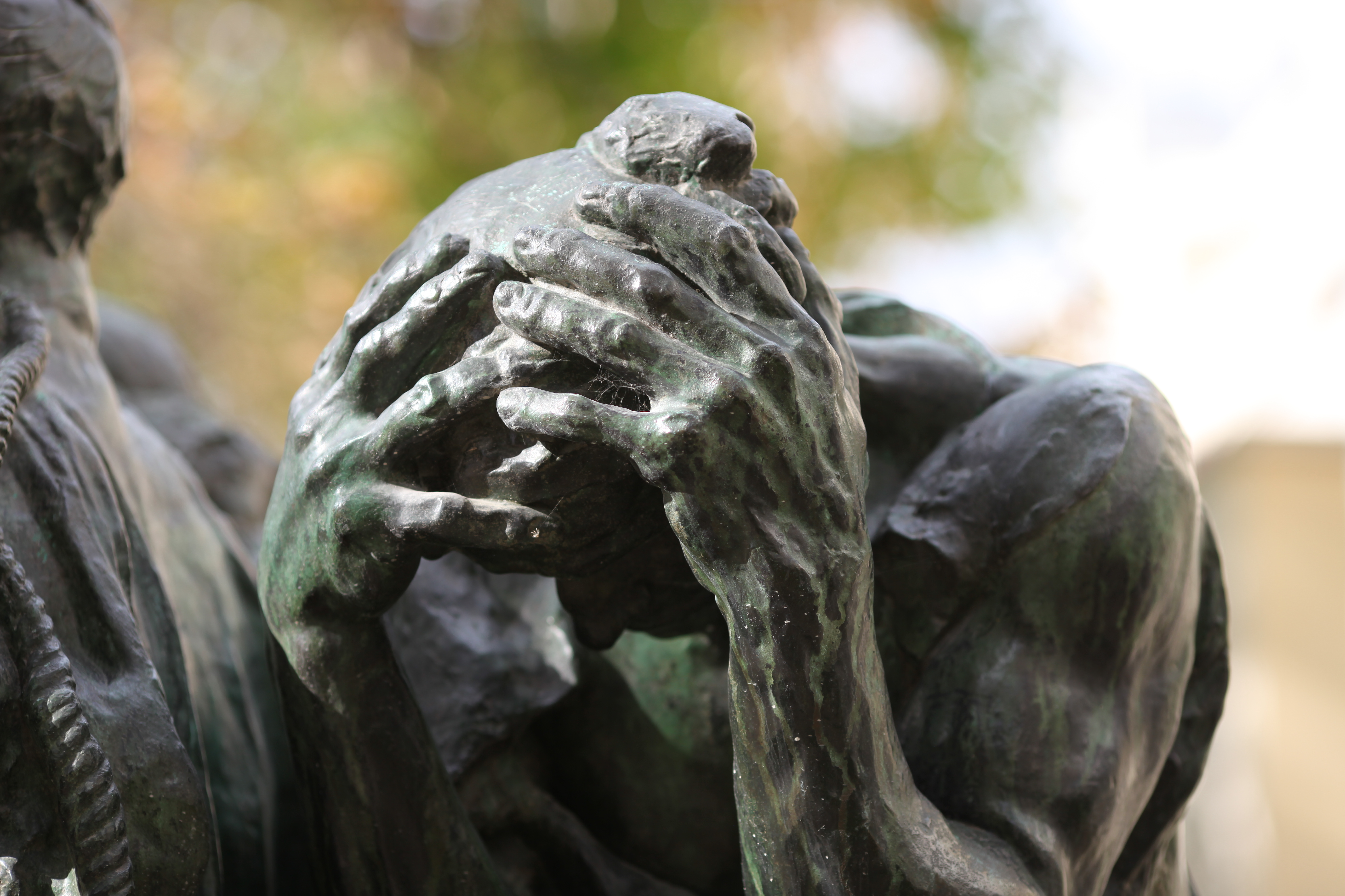 Les Bourgeois de Calais, Sculpture by Auguste Rodin, detail #5